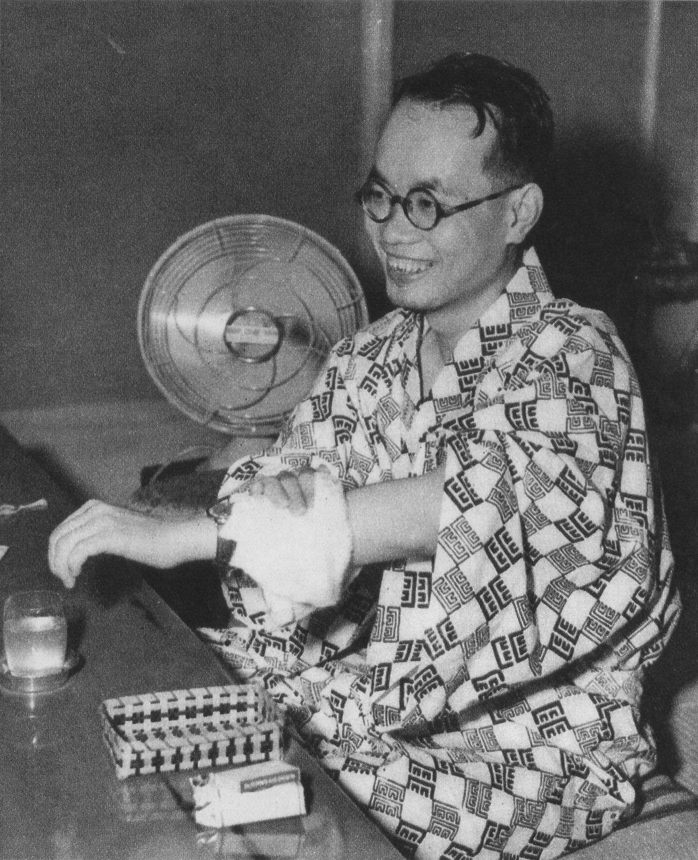 New Shogi Champion Yasuharu Ōyama, 1952.